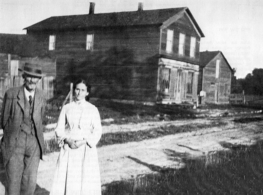 Mr. and Mrs. F.N. Pitts stand in front of their store in St. Johns, Ontario.